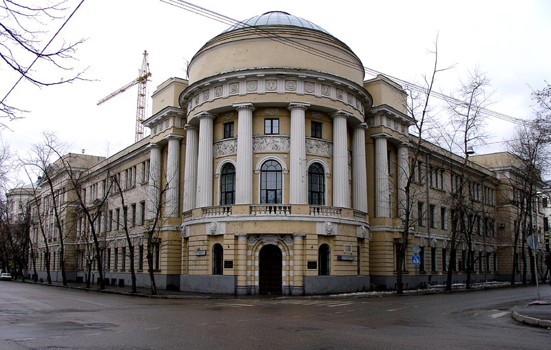 Devichye Pole, Moscow, Medical Campus - Clinics